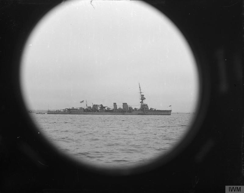 The British Naval Campaign in the Baltic, 1918-1919 Royal Navy light cruiser HMS CASSANDRA at Copenhagen. She was afterwards sunk by a mine on her way to Reval (Tallinn). December 1918.